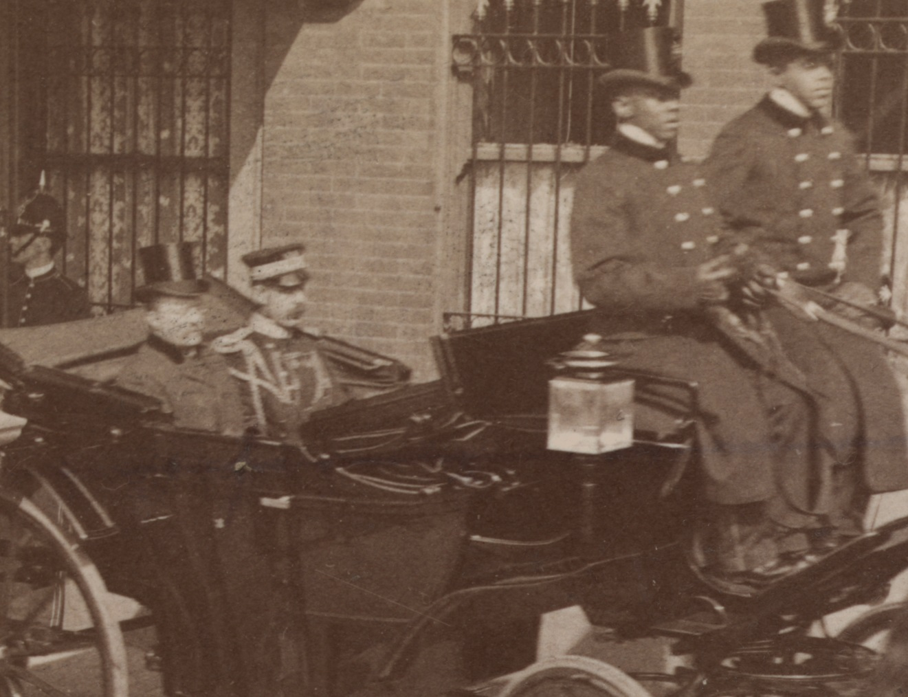 President Roosevelt and Col. Bingham, leaving the German Embassy after returning Prince Henry's call, Washington, U.S.A. April 5, 1902